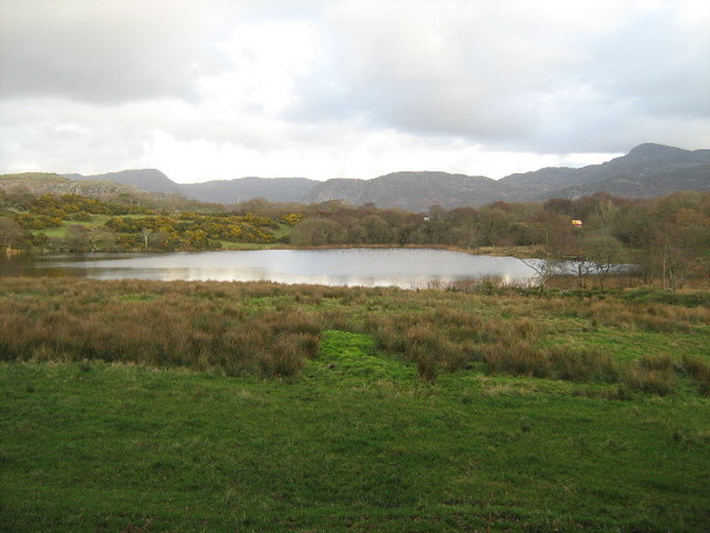 Llyn Hafod-y-llyn